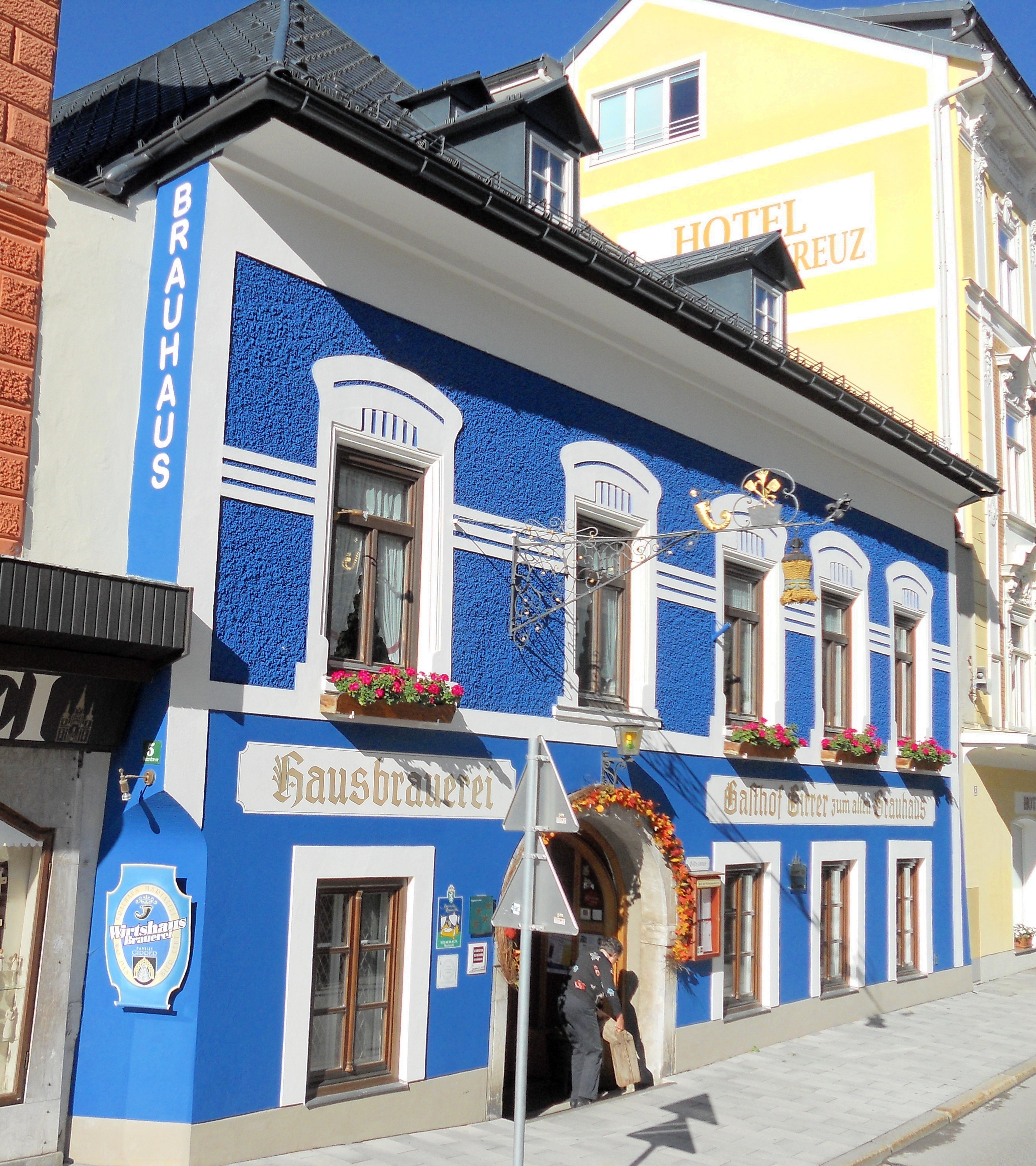 brewhouse Mariazell ("Wirtshausbrauerei Girrer")